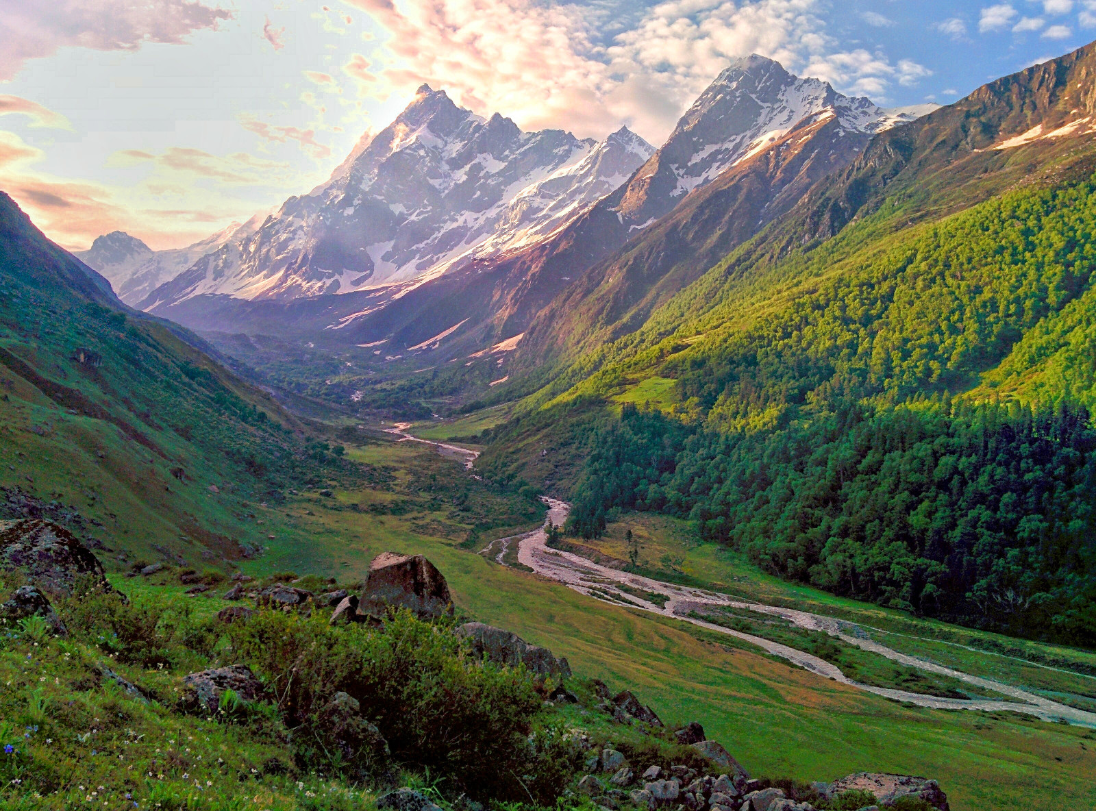 This is an image of the Har Ki Dun valley in Garwhal Himalayas in the North Indian state of Uttarakhand. In this image, we can see a portion of the valley, a river which flows through it, and in the background, the himalyan peak called 'Swargarohini'. Local legend has it that Yudhishthira (one of the Pandava's from the Hindu composition called Mahabharata) scaled this peak on his way to Heaven.